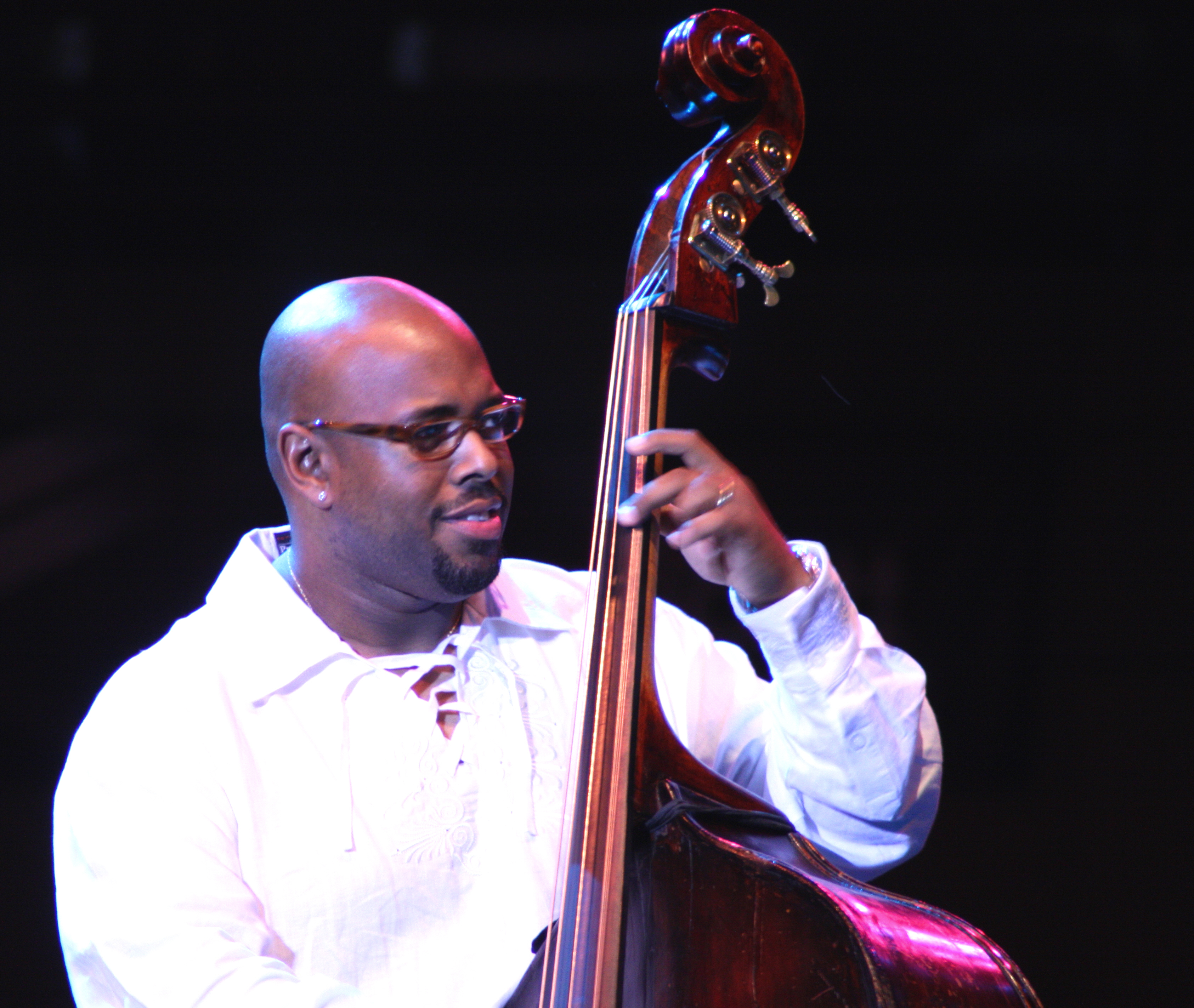 Christian McBride leading his group Inside Straight at the 2009 Detroit Jazz Festival. Marvelous set.